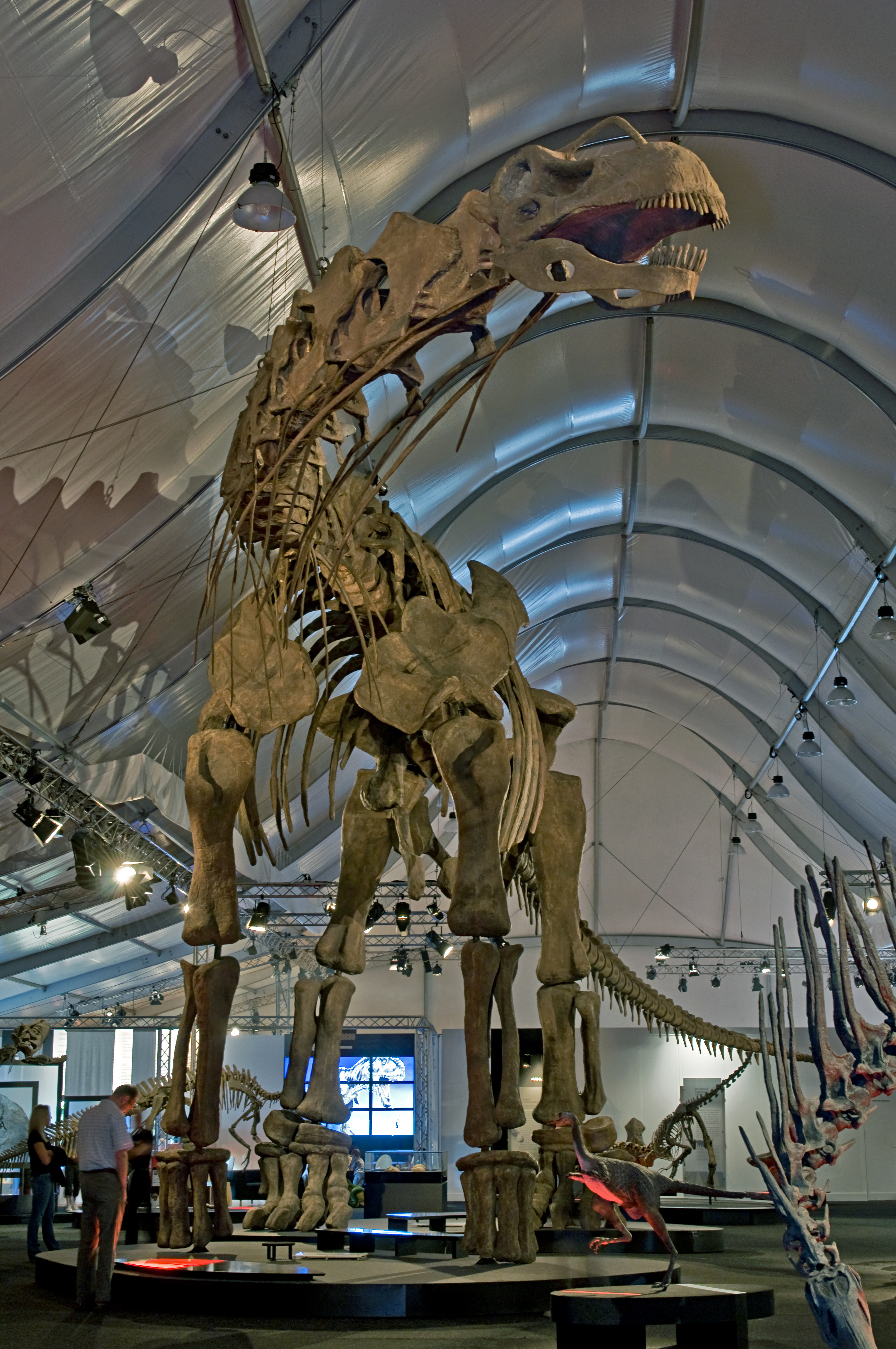 Skeletal reconstruktion of Argentinosaurus in a special exhibition of the Naturmuseum Senckenberg